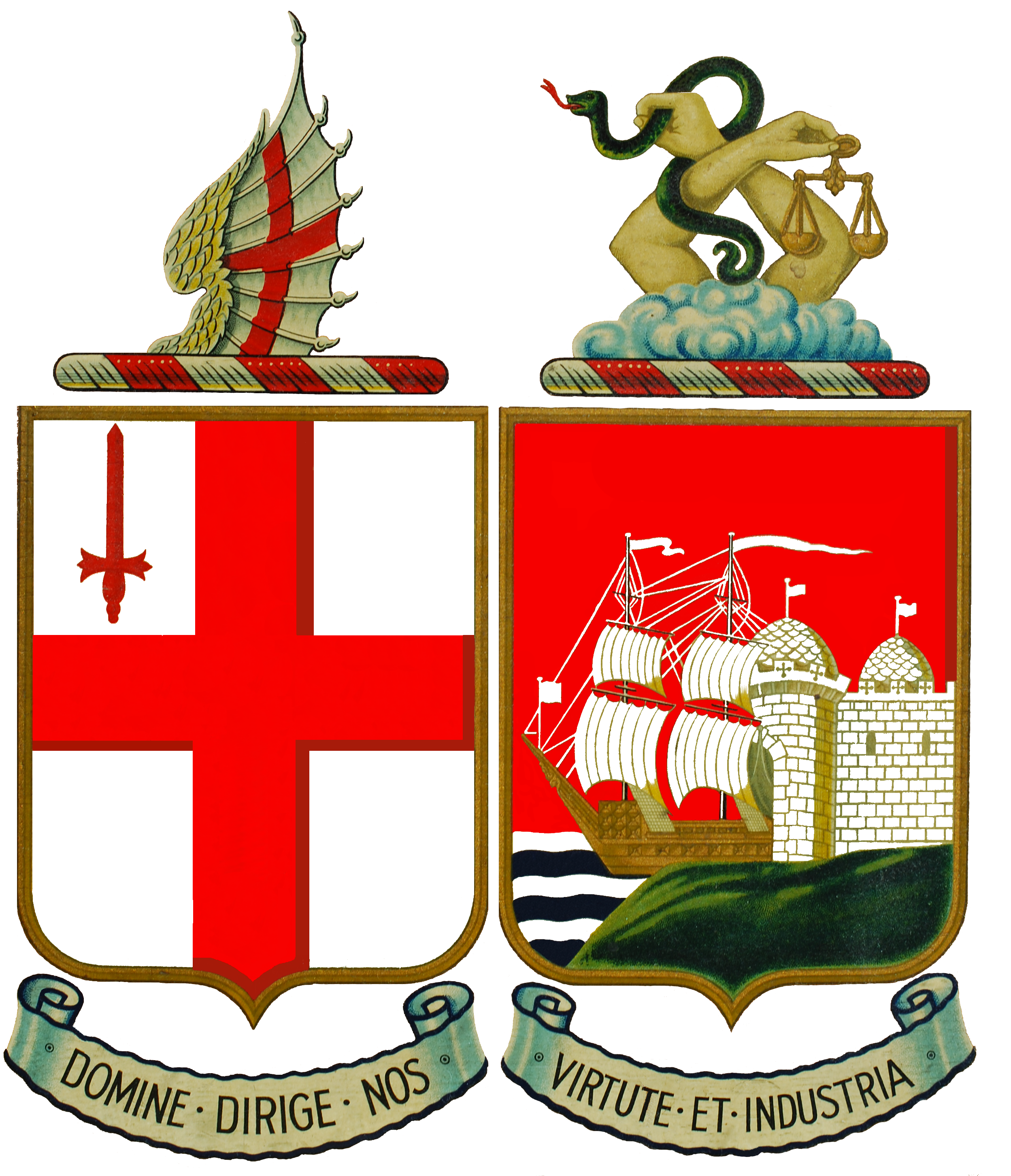 This image is for Tom Richards. I produced this image by tracing a photo of a decal that was affixed to a wooden board which belonged to my Grandfather. There are a few issues with colour consistency, but I think it's an improvement on what's currently available.